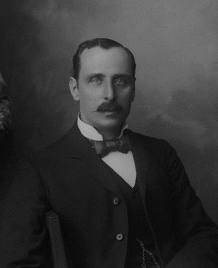 Detail of a portrait of the British colonial administrator Sir Gilbert Thomas Gilbert-Carter (1848-1927)